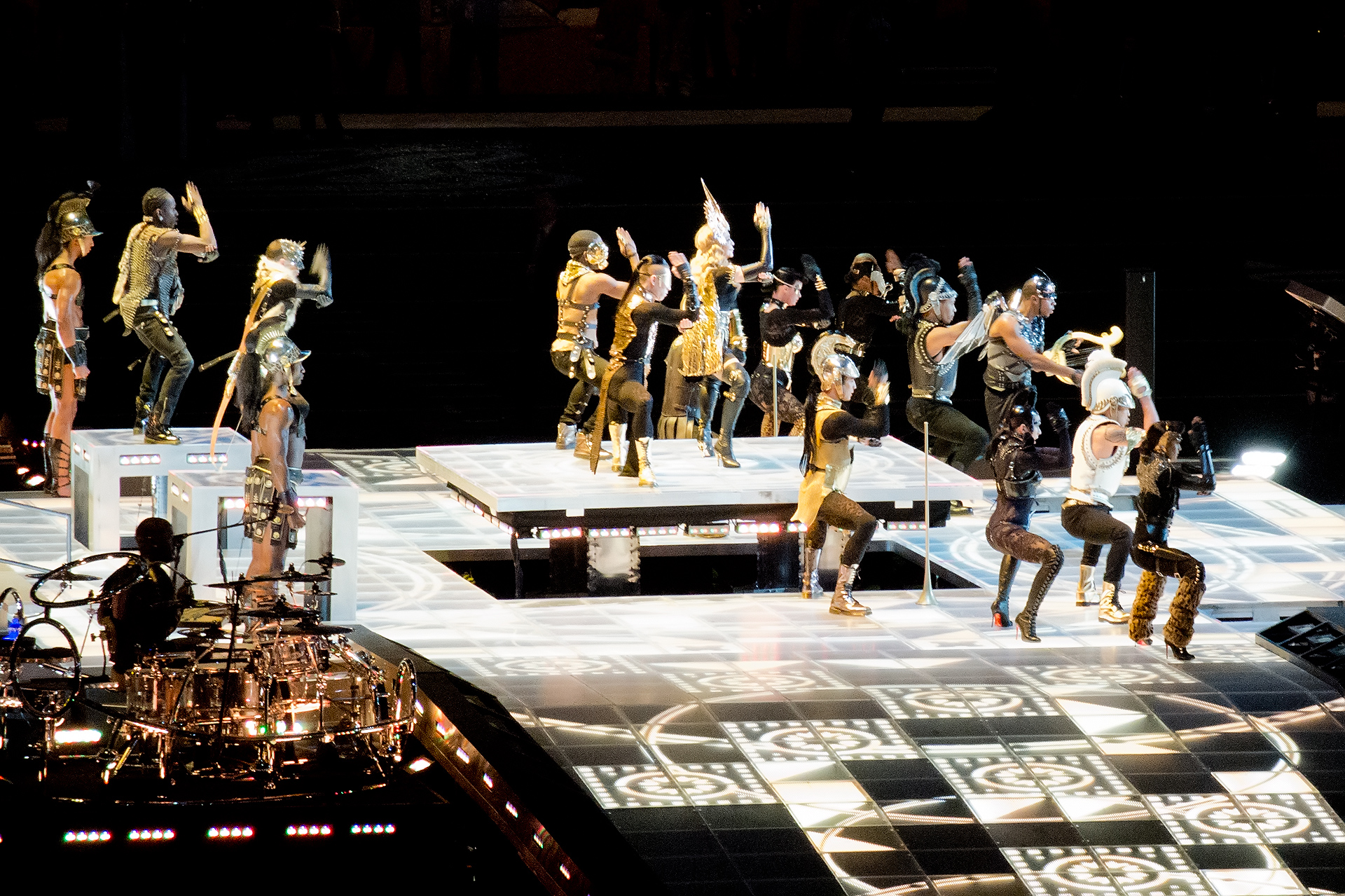 Madonna Halftime show Madonna performing on the Super Bowl XLVI halftime show